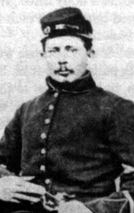 A photograph of Jack Skelly, a Union soldier in the American Civil War who was mortally wounded at the Second Battle of Winchester.